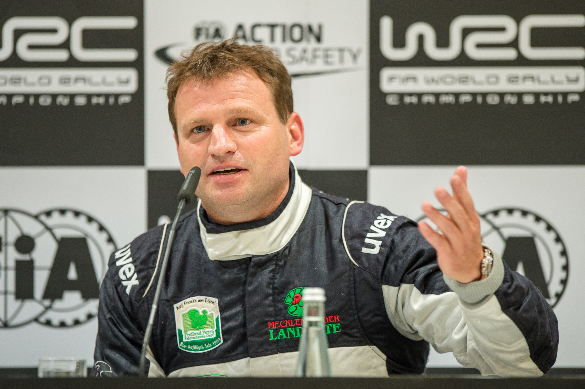 ADAC Rallye Deutschland 2014,Armin Kremer,FIA,FIA World Rally Championship,Motorsport,Pressekonferenz,Rally,Rallye,WRC 2